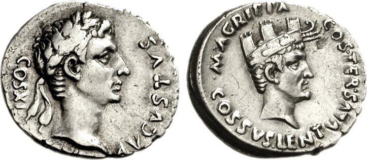 Augustus, with Agrippa. 27 BC-AD 14. AR Denarius (3/91 g, 6h). Rome mint. Cossus Cornelius Lentulus, moneyer. Struck 12 BC. AVGVSTVS COS • XI, head of Augustus right, wearing oak wreath / • M • AGRIPPA • COS • TER • COSSVS • LENTVLVS, head of Agrippa right, wearing mural and rostral crown. RIC I 414; RSC 1 (Agrippa and Augustus); BMCRE 121 = BMCRR Rome 4671; BN 548-50. Near EF, lightly toned, a couple of shallow scratches on reverse. Rare.